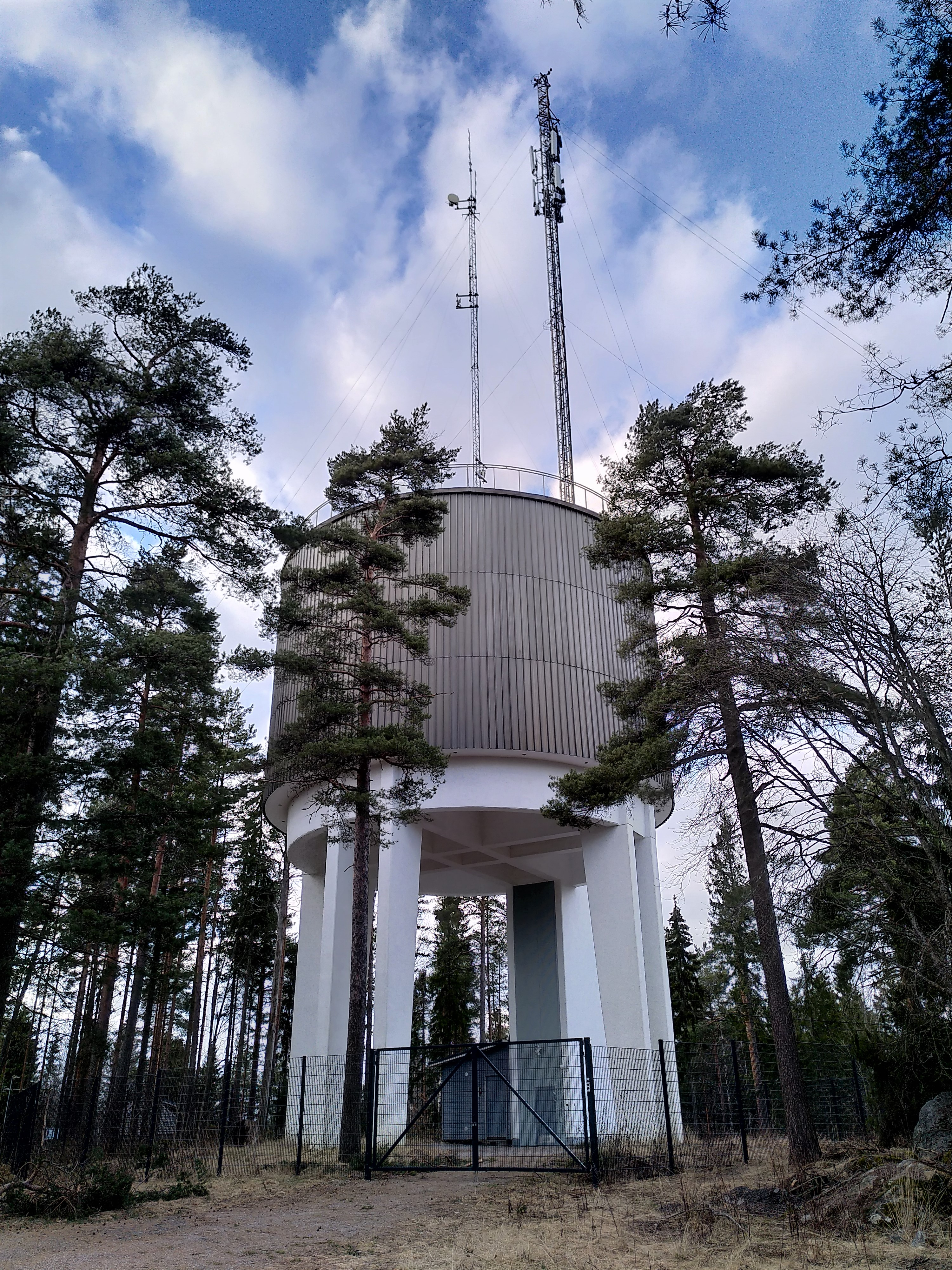 A water tower in Toijala, Finland.